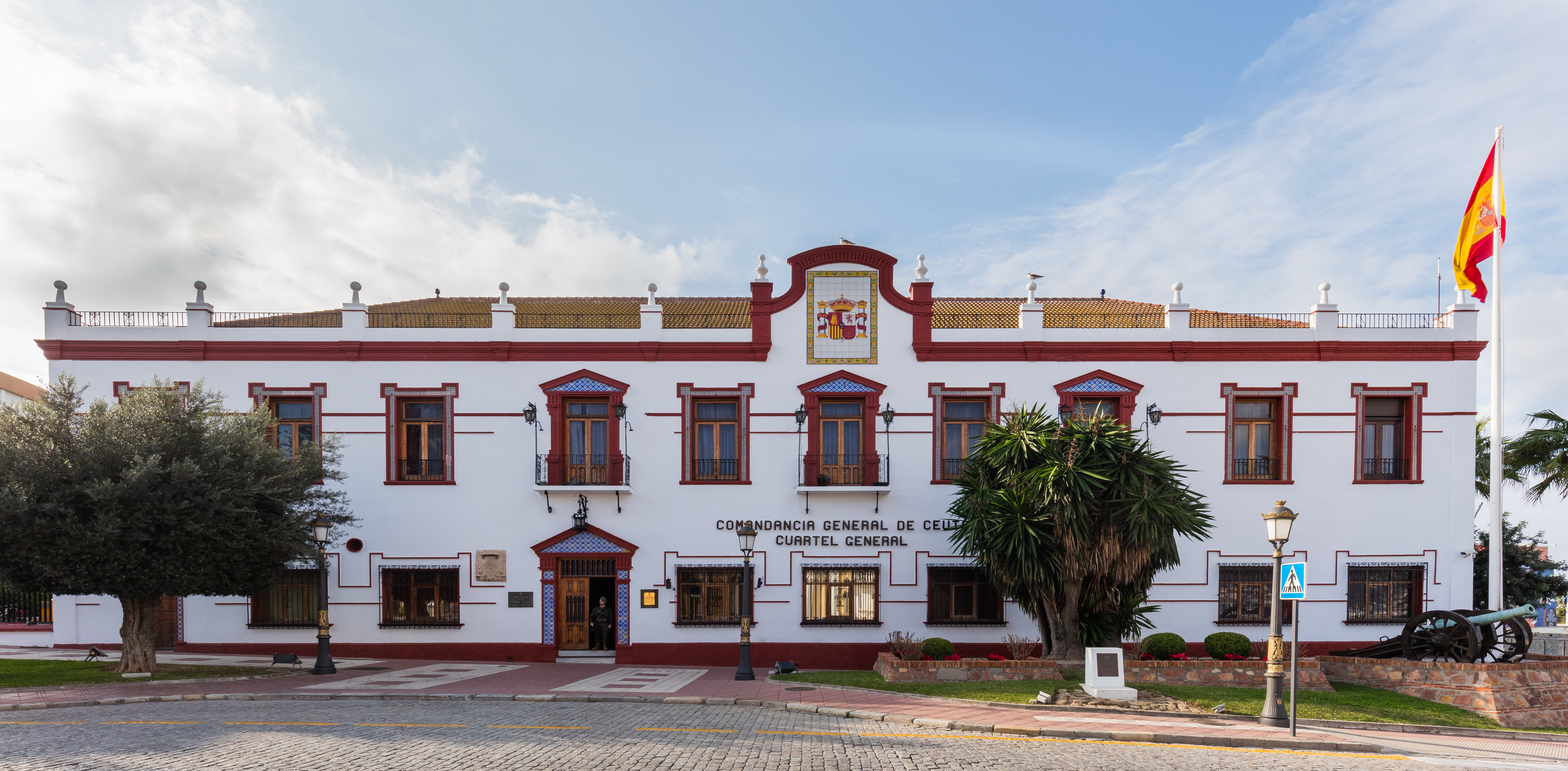 Command Headquarters of Ceuta, Ceuta, Spain